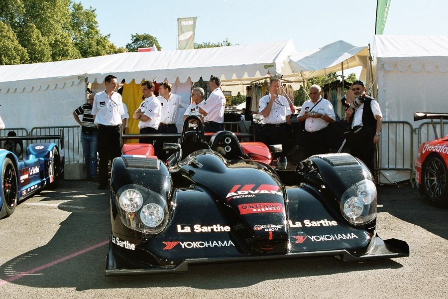 Pictures from the 24 Hours of Le Mans 2005 Scruteneering Session - No.13 Courage Competition Courage C60 Judd